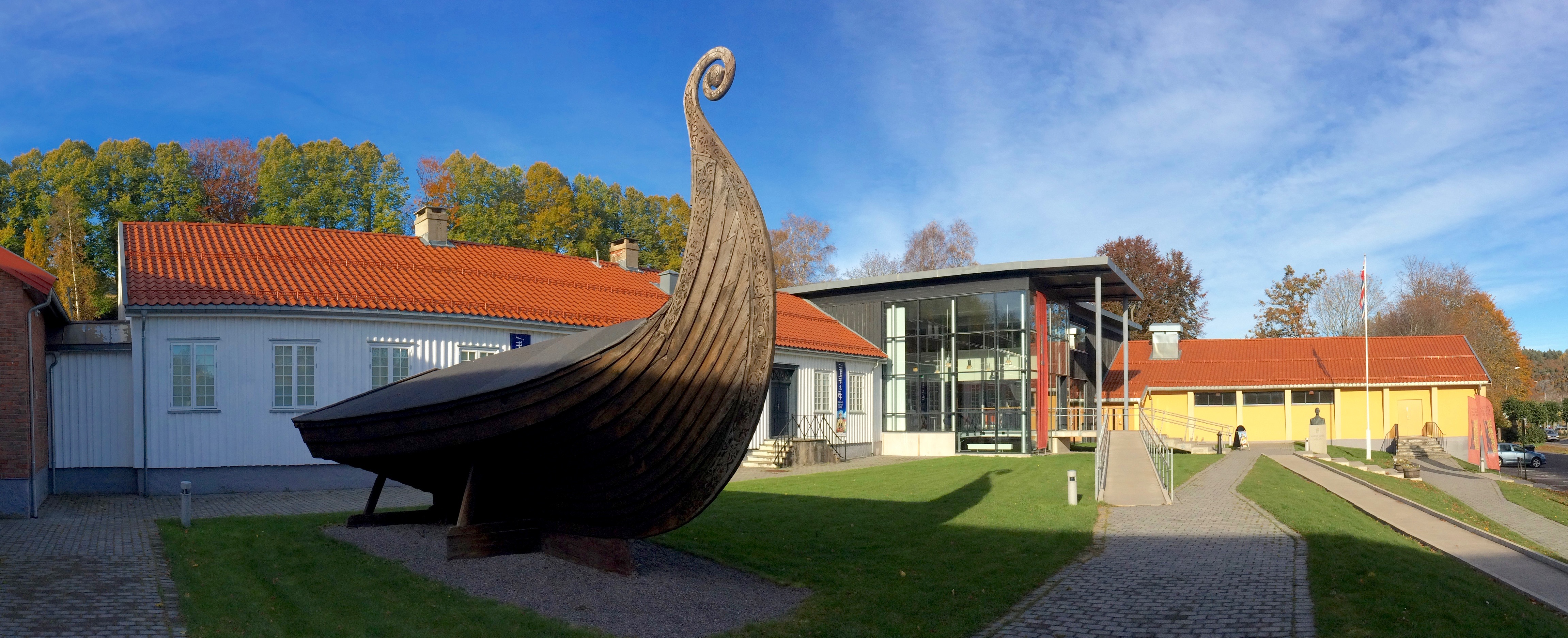 Slottsfjellsmuseet Tønsberg Vestfold 2015-10-23 distorted panorama cropped oseberg stavn